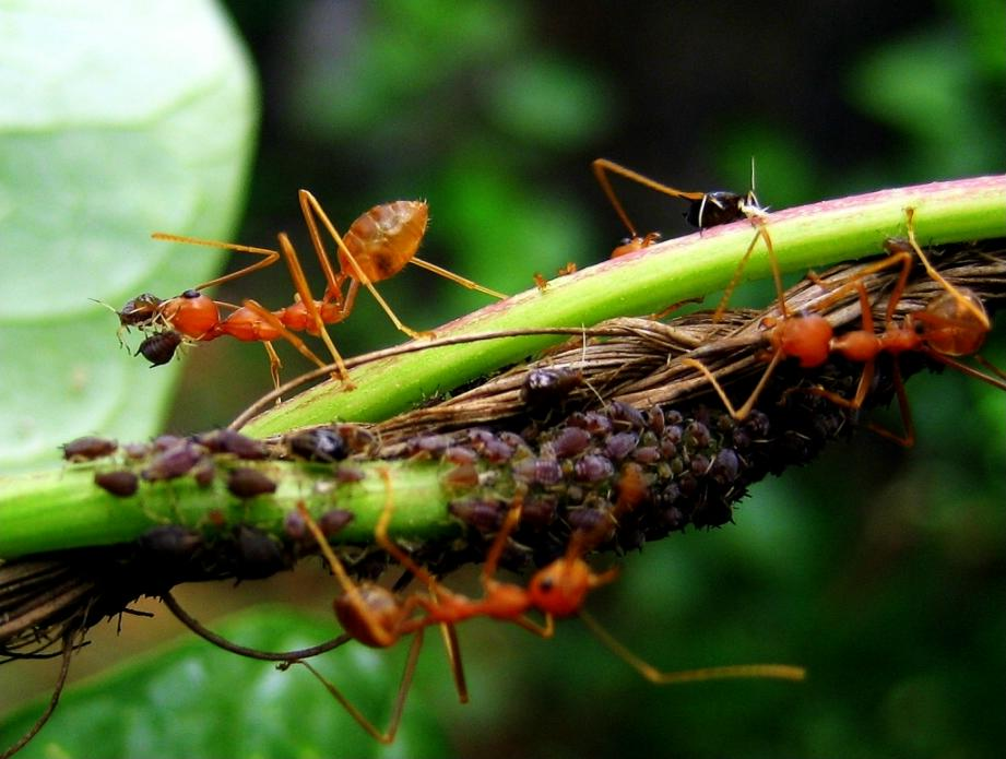 Aphids and ants